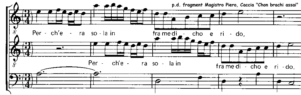 Example of a caccia - source: Magister Piero (b. before 1300, d. shortly after 1350), "Chon brachi assai", so in p.d.